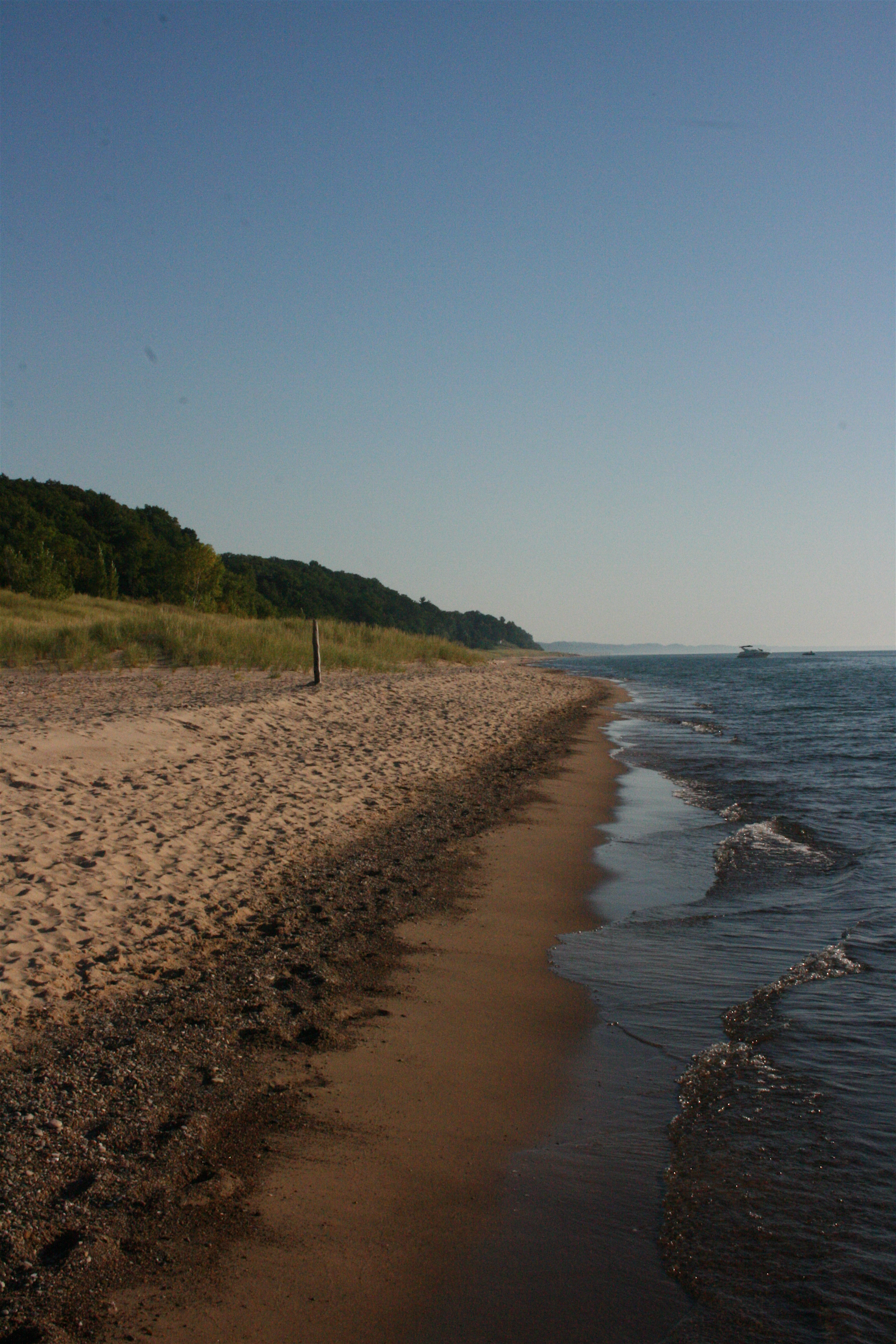 The beaches at Grand Mere State Park. On the left you see the beaches and dunes and to the left you can see Lake Michigan.